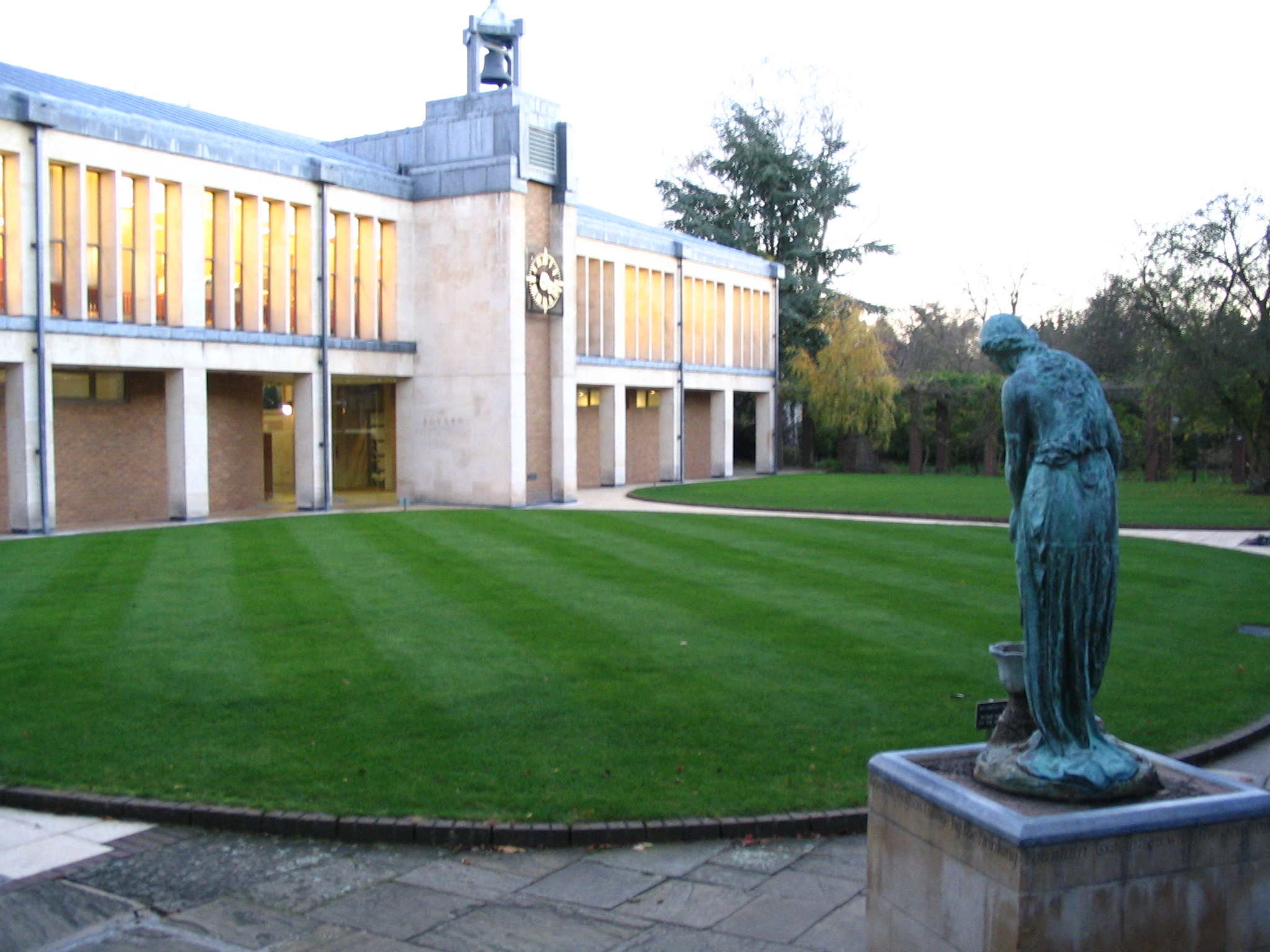 Wolfson College, Cambridge, showing the college library on the left and a statue on the right. Taken by Timwi in June 2006.